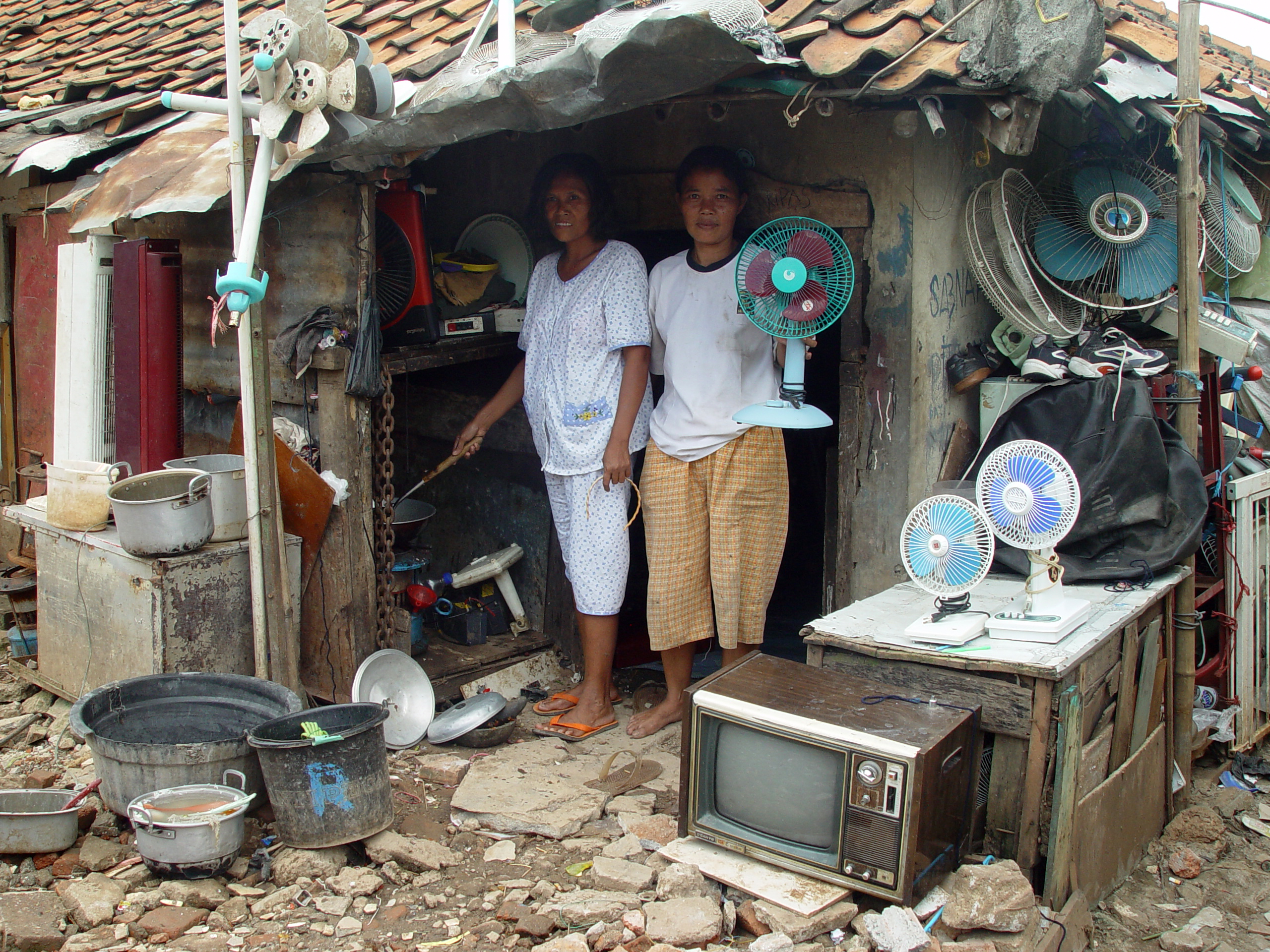 Slum life, Jakarta Indonesia.